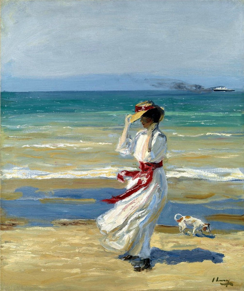 A Windy Day